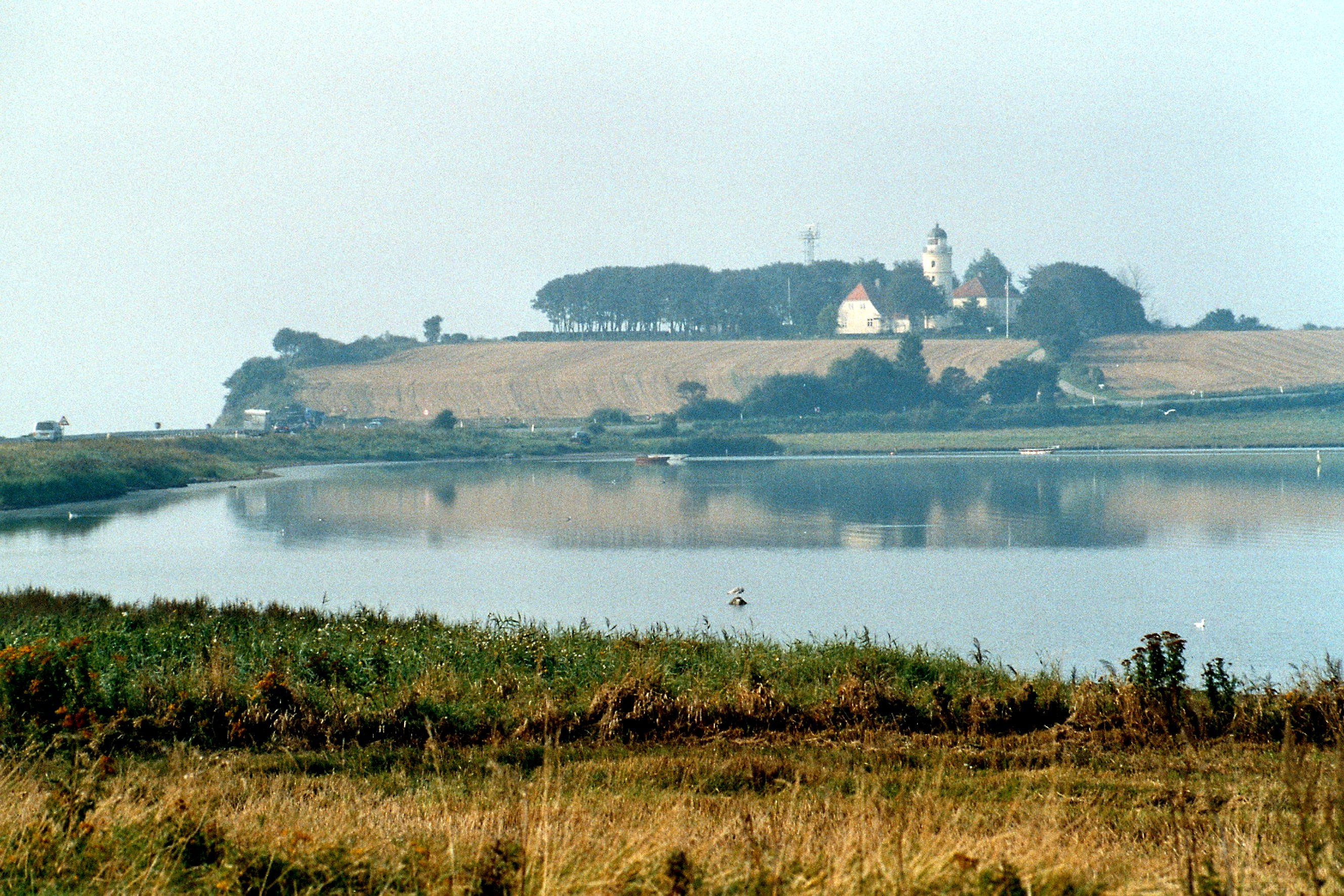 Kegnaes peninsula, the lighthouse